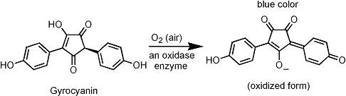 Chemical reaction depicting the oxidation of gyrocyanin to gyropentone, the cause of the bluing reaction in the bolete mushroom Gyroporus cyanescens.